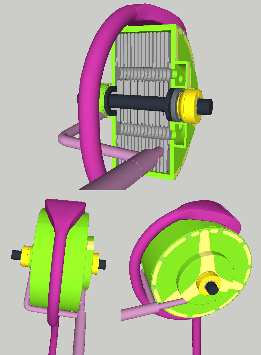 A snapshot of a 3D model of an Tesla turbine. Uploaded to wikipedia with permission granted by the AT CAD Team. The Tesla turbine was inspired by Dan Granett's tesla turbine